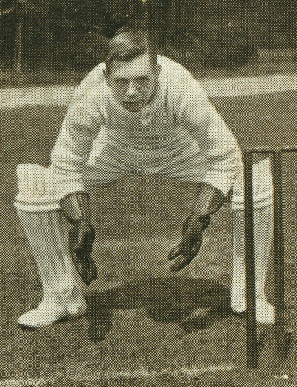 Smith's "Albion" Gold Flakes Cigarette Card of Tiger Smith, part of the 1912 Cricketers series.